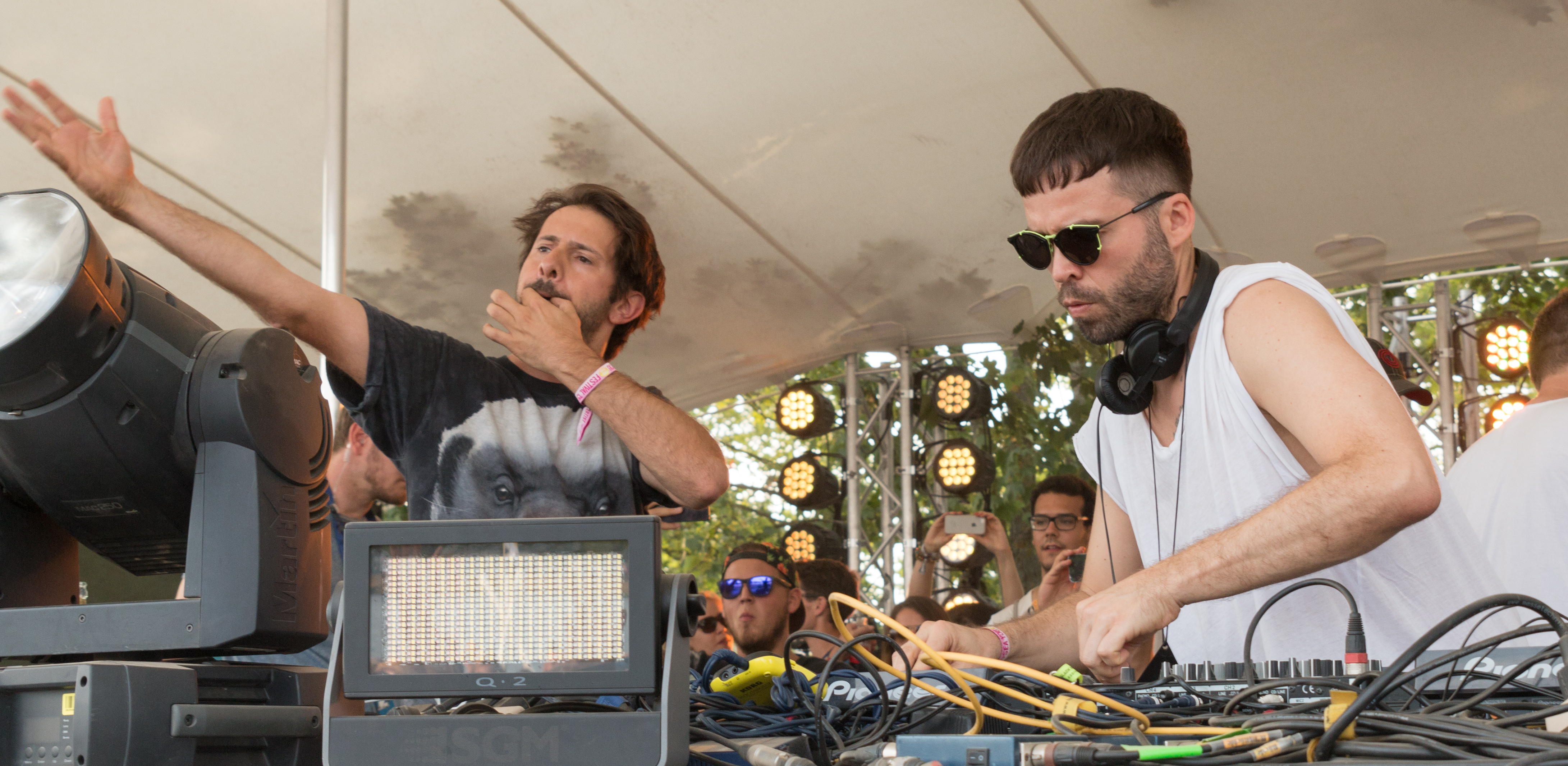 Lexy & K-Paul at the Sea You Festival in Freiburg im Breisgau on July 19th, 2015.